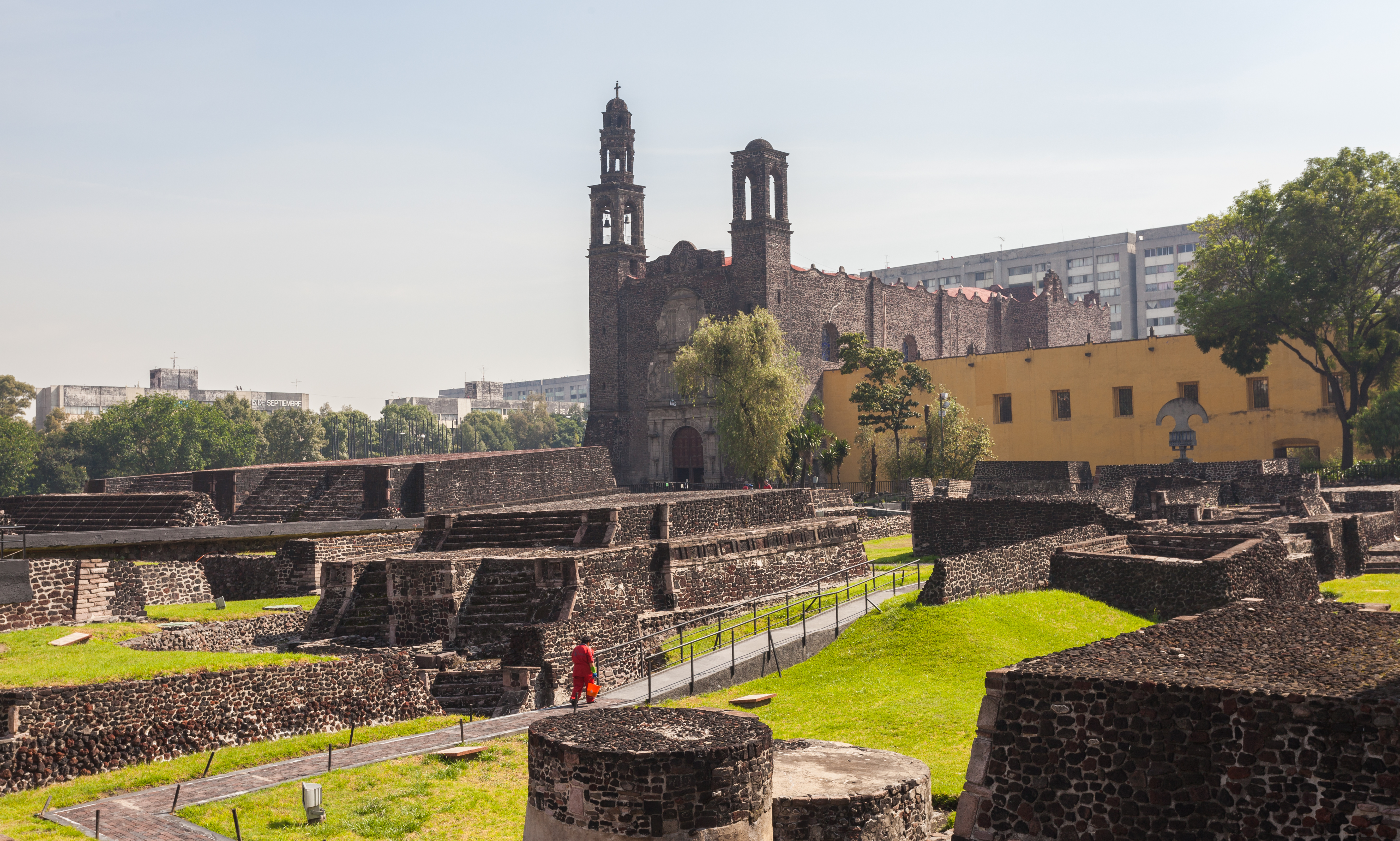 Archeological zone and church of Santiago Tlatelolco, Mexico City, Mexico